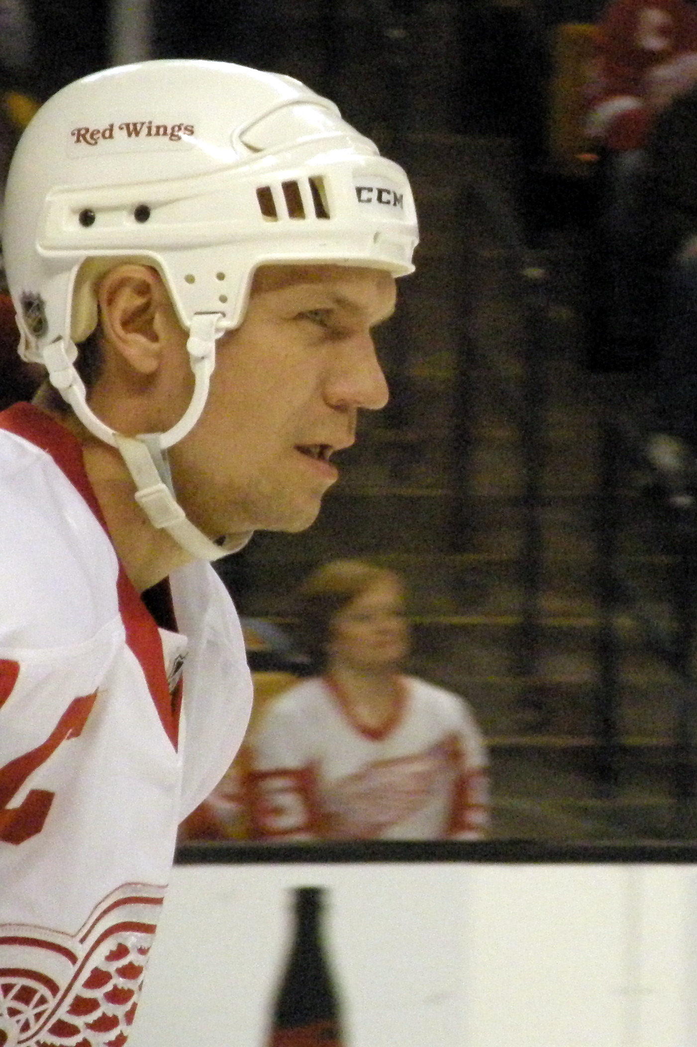 Nicklas Lidström